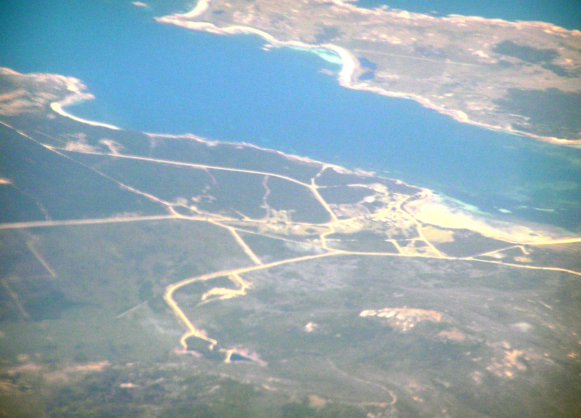 view of Cape Barren Island Settlement from south east